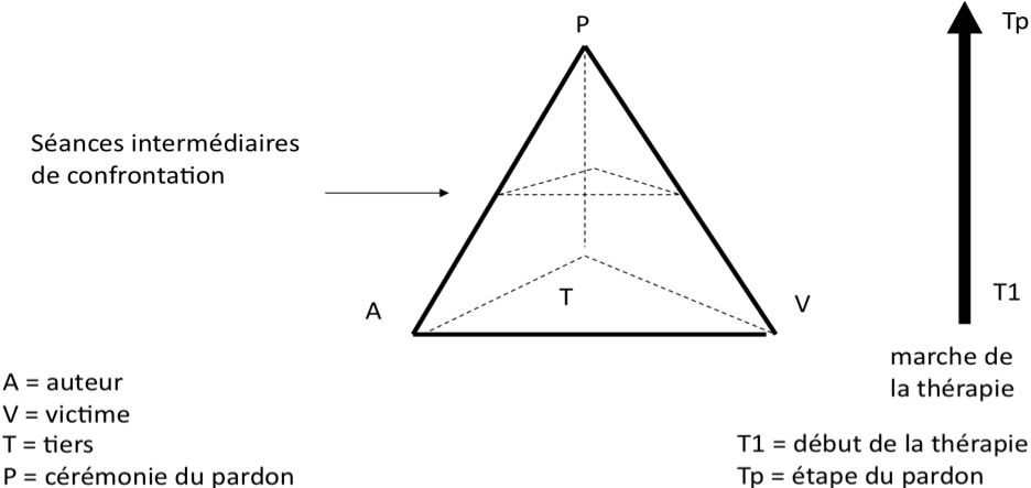 Pyramid approach of forgiveness in abusive families